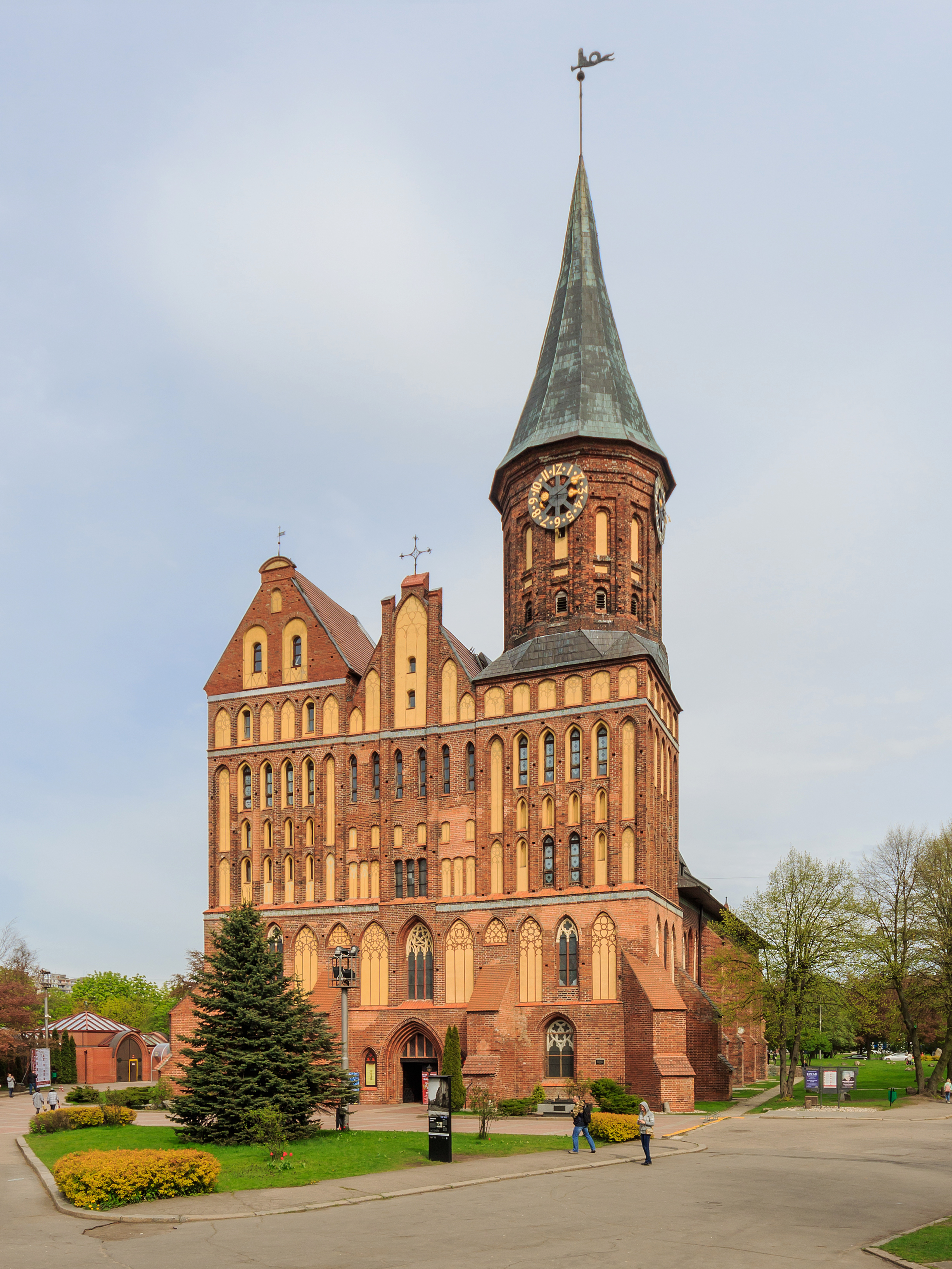 Historical Lutheran cathedral in Kaliningrad formerly Königsberg, Kaliningrad Oblast (Russia).